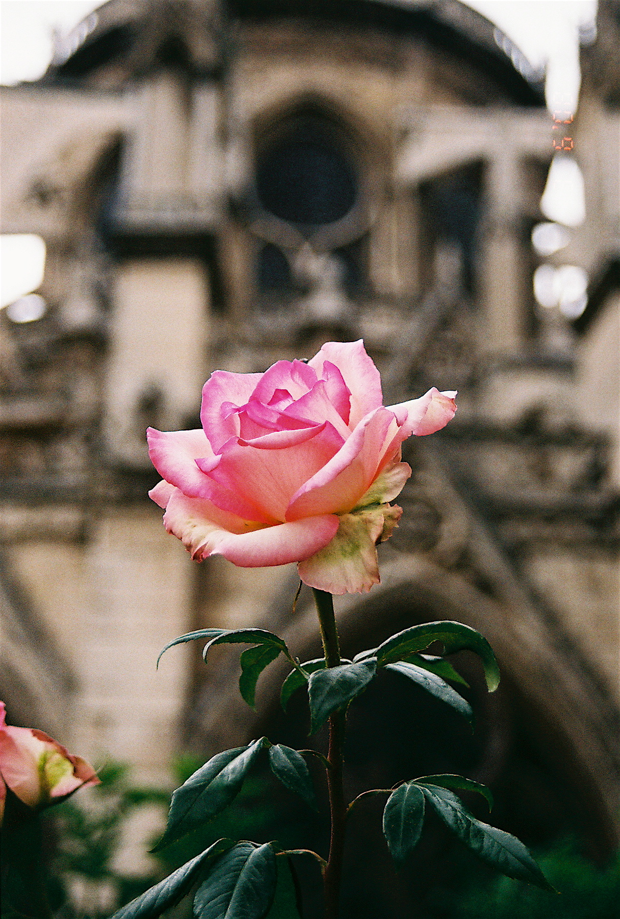 One of the many roses in the flower garden behind Notre Dame.